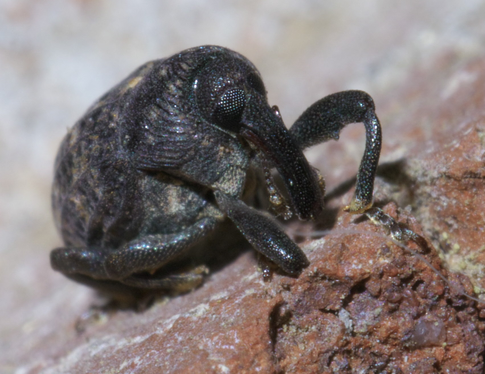 Rhyssomatus palmacollis, Family: Snout and Bark Beetles, ID Confidence: 98